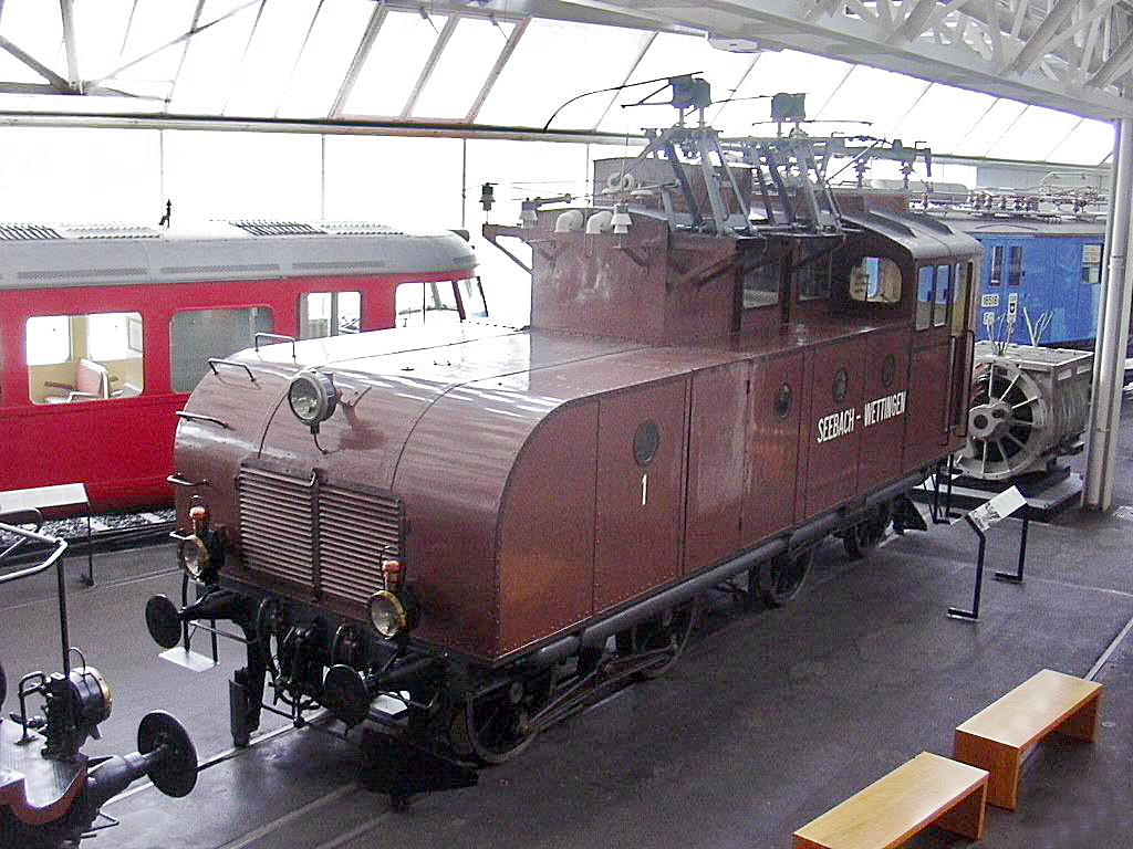 Experimental locomotive Ce 4/4 13501 "Eva" built 1904 by MFO, later used by SBB and BT until 1958. Swiss transport museum, Luzern.